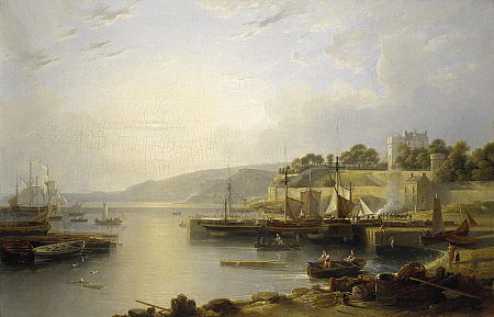 Burntisland in Fife, Scotland, view of the port with Rossend Castle .